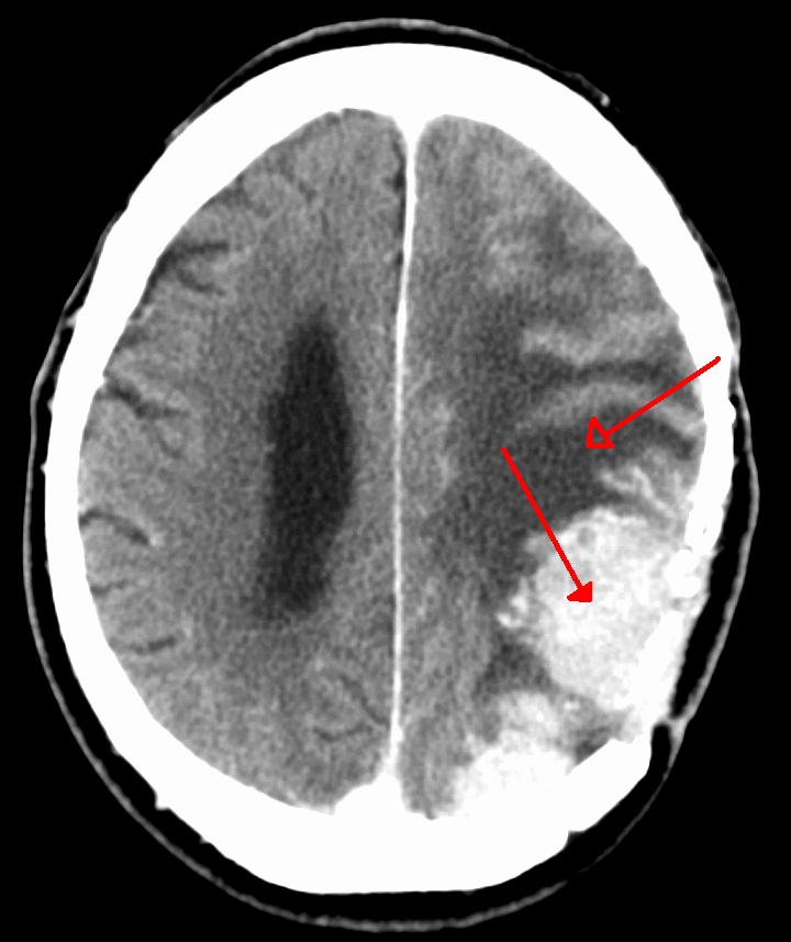 A menigioma with surrounding edema. Had been previously operated on.